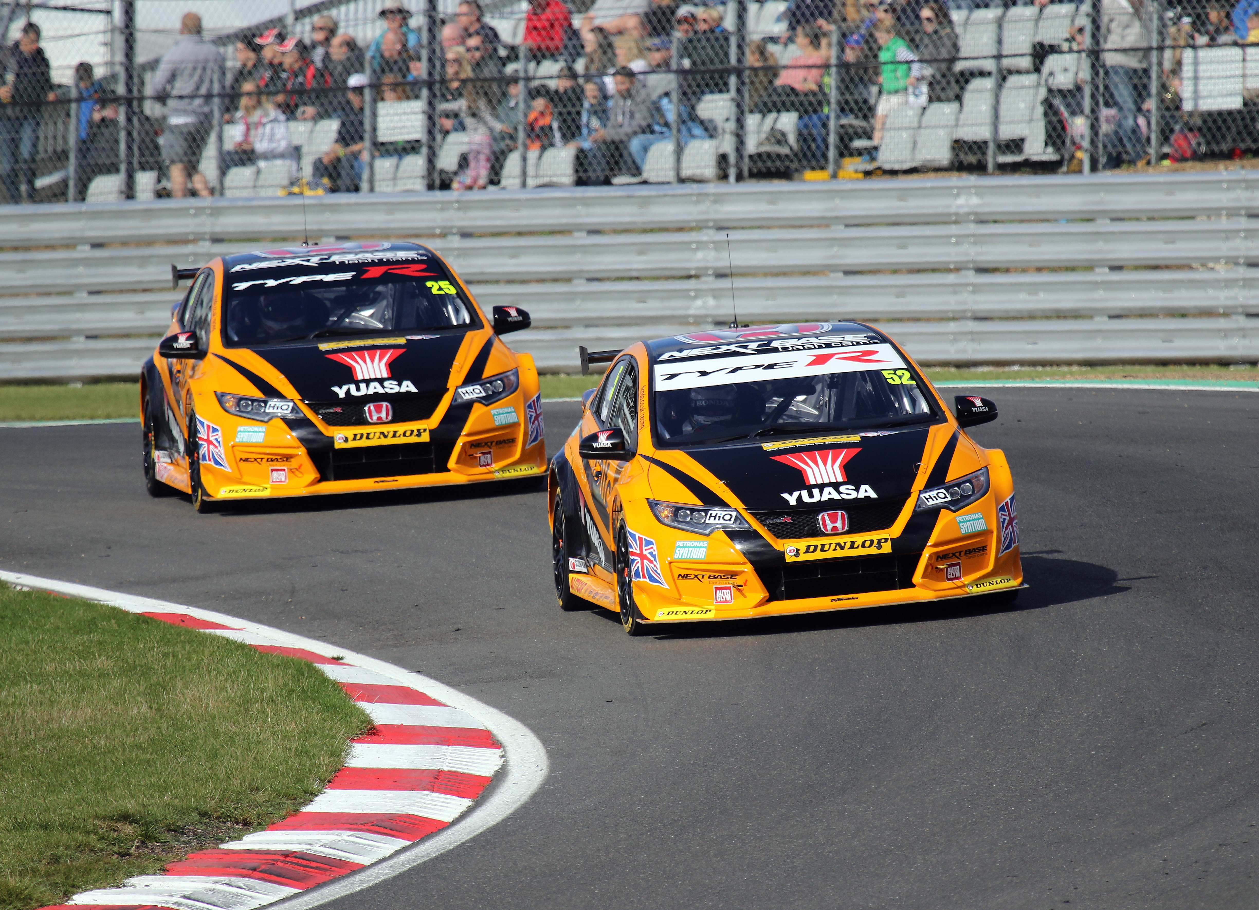 2016 British Touring Car Championship, Brands Hatch GP.